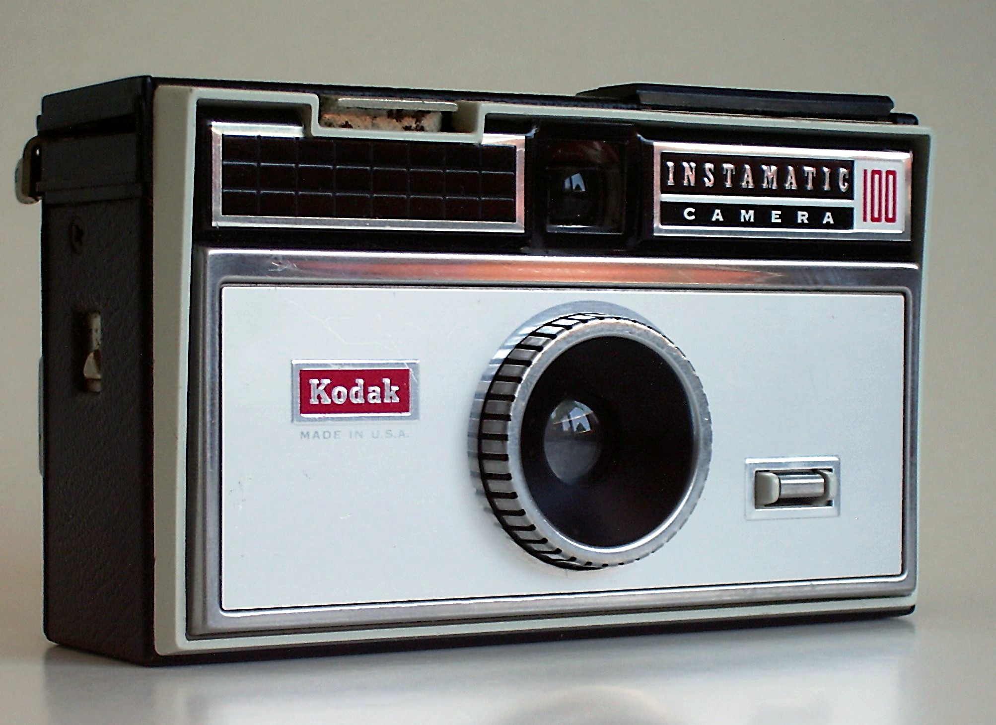 Kodak Instamatic 100 camera for 126 film. Made in USA.